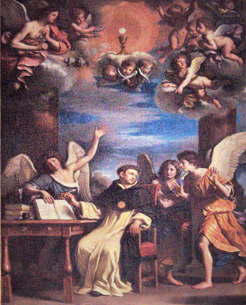 St. Thomas writing the Holy Sacrament